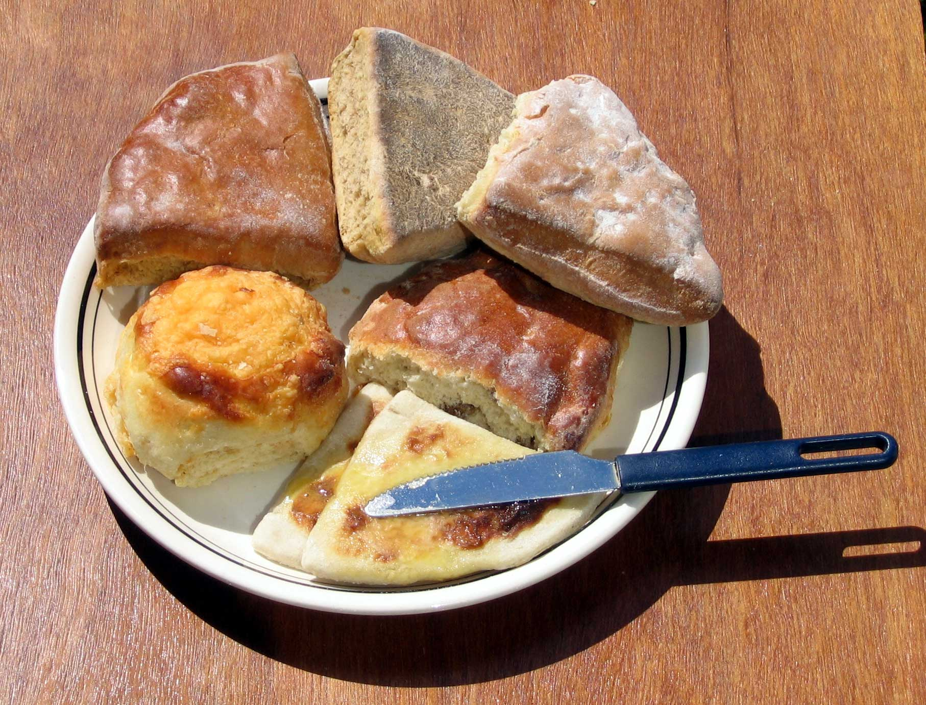 A variety of Scottish scones.